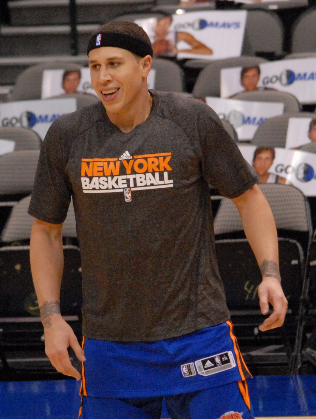 Mike Bibby with the New York Knicks